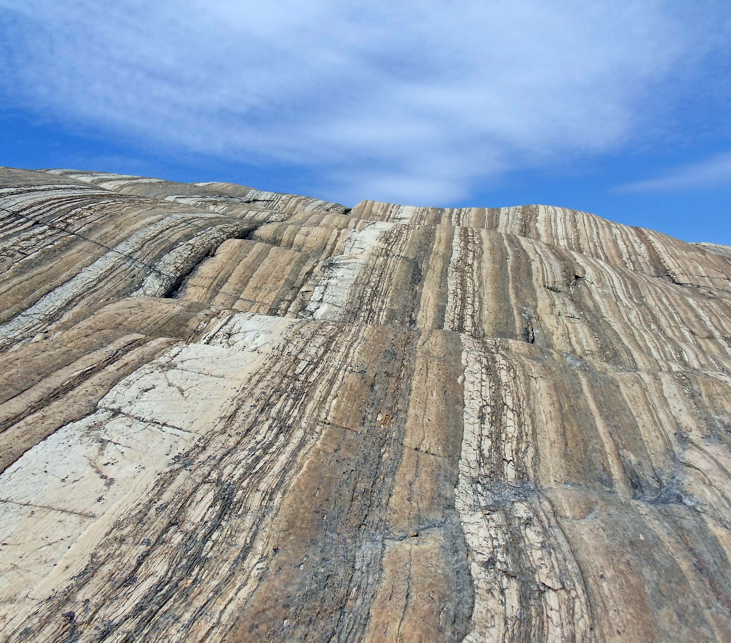 Bedded 2 billion year old sedimentary rocks, say 5 metres wide at base of photo. Rollercoastering up into the sky just outside Sanikiluaq, Nunavut. Mega-miles of textured rocks in the Belcher Islands for the macro inclined.